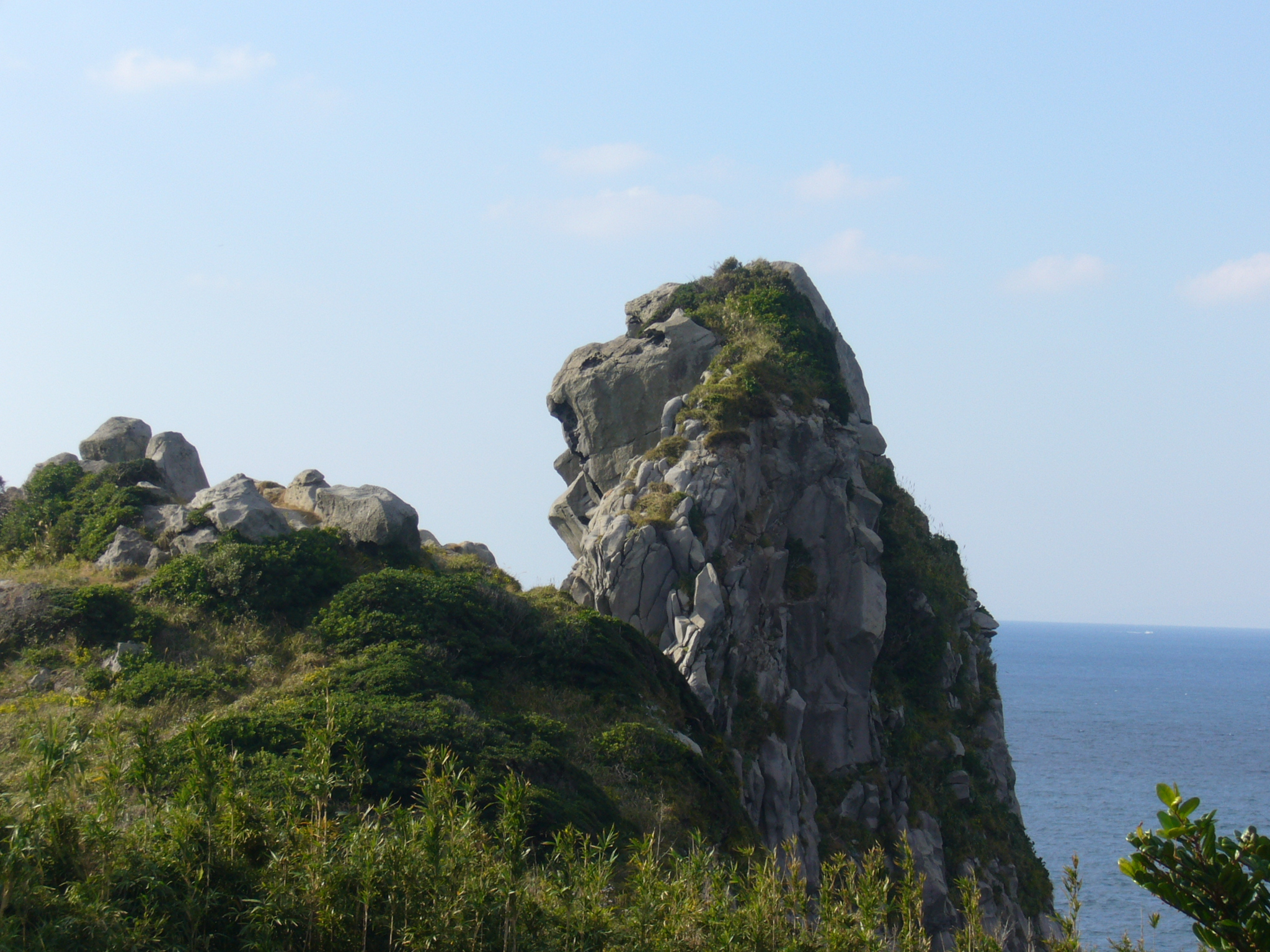 Saruiwa (monkey rock) of Iki island, Japan